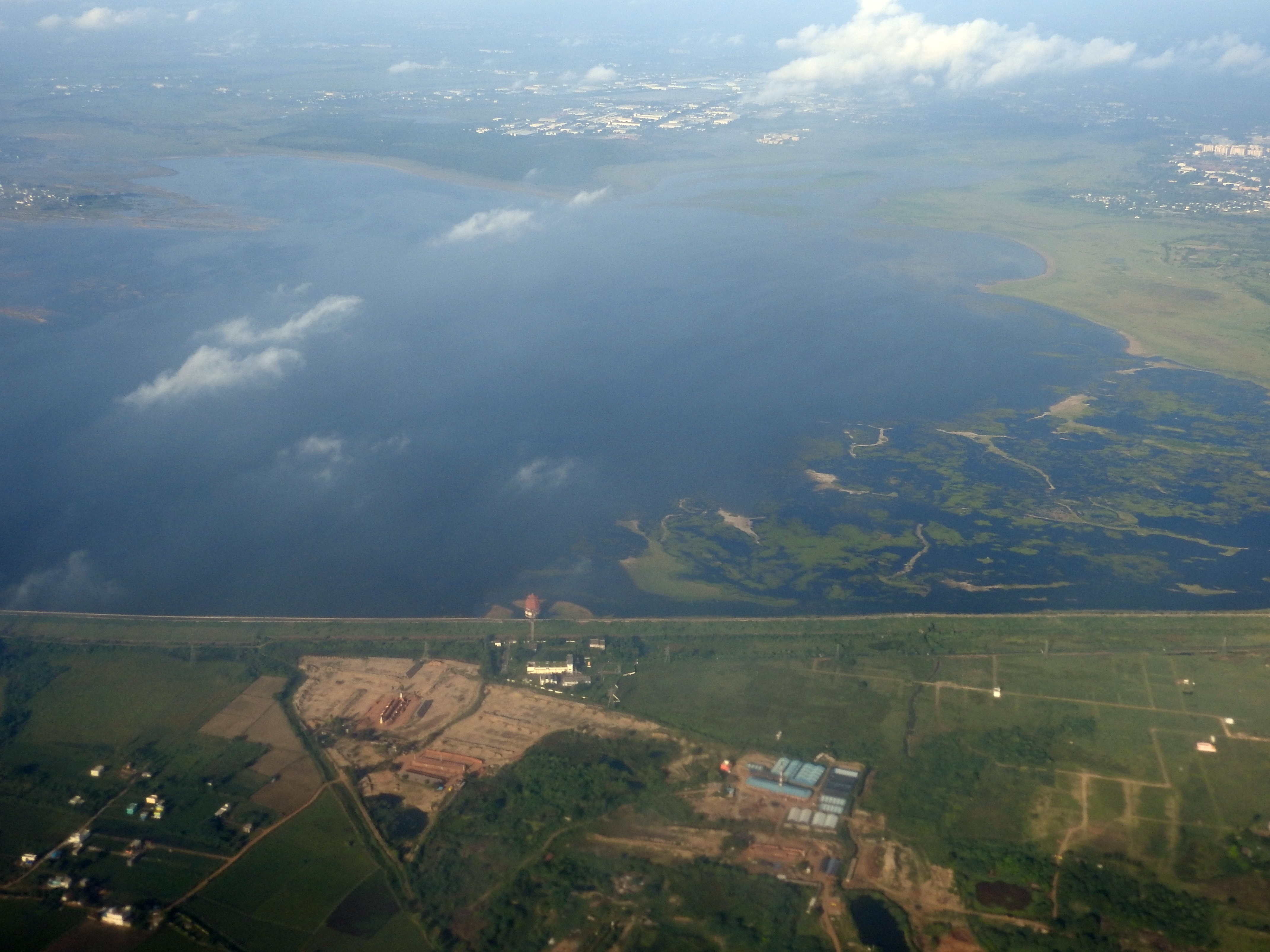 Aerial view of the Chembarambakkam Lake.